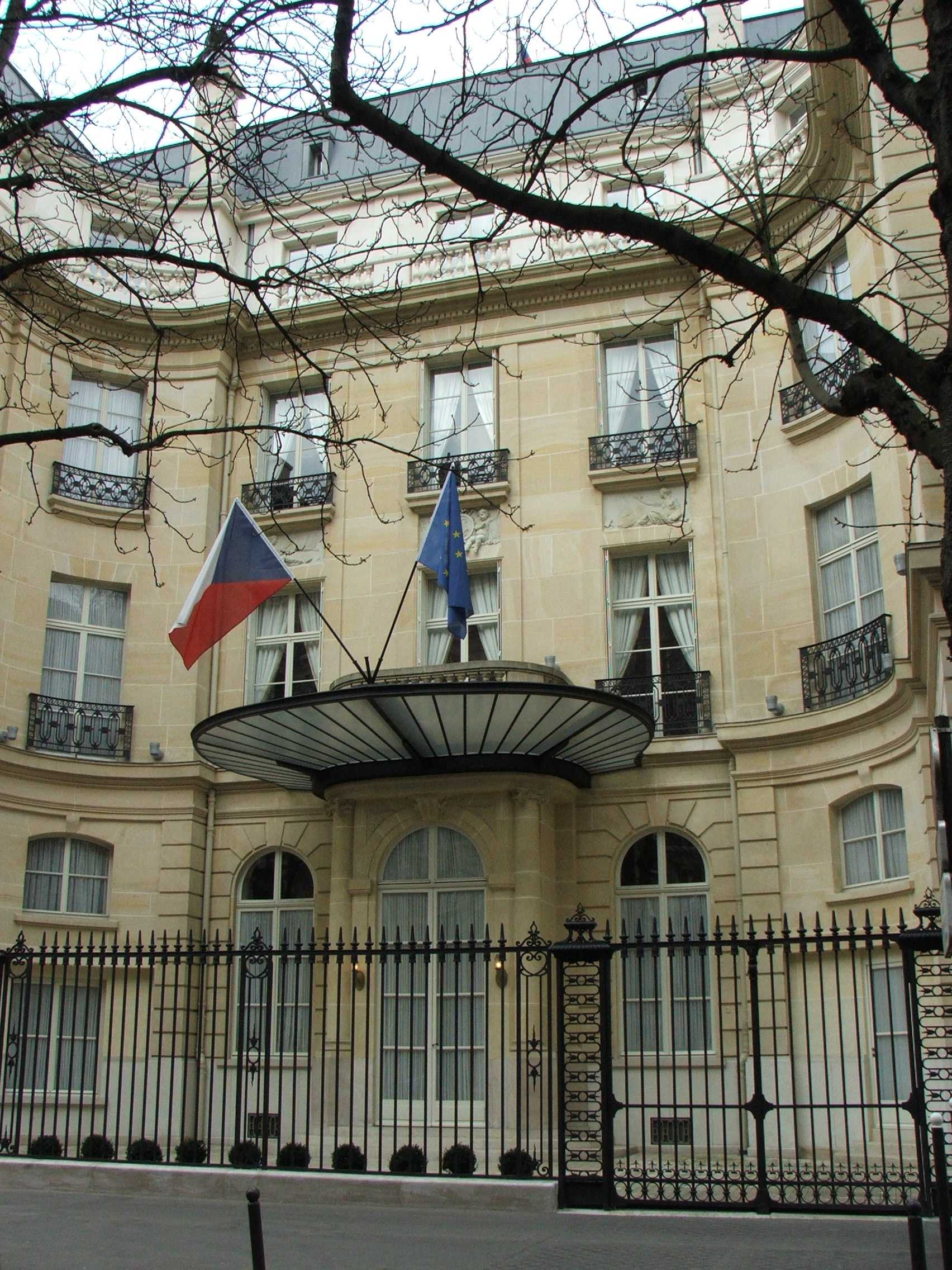 Embassy of Czechia in Paris - France.